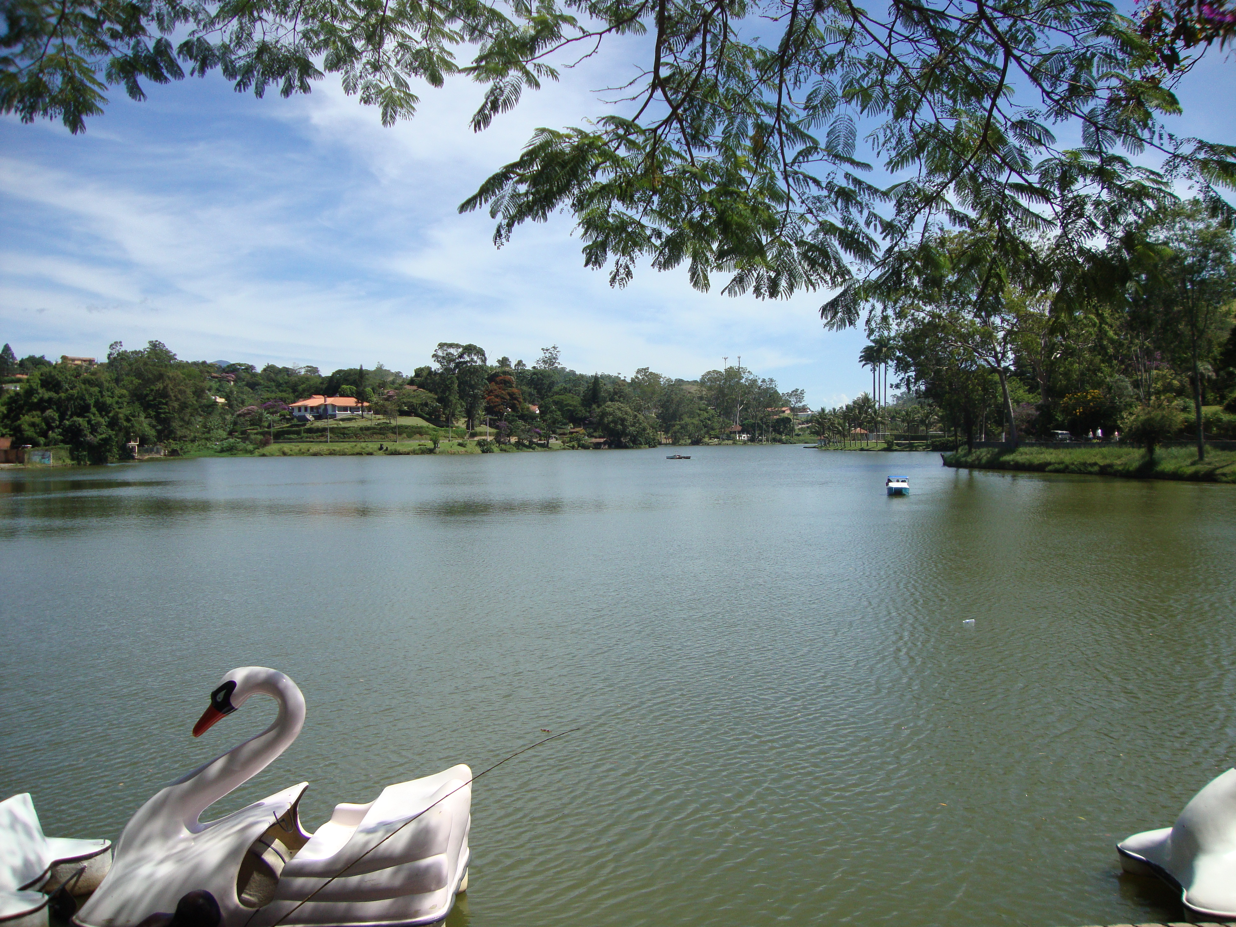 Javari Lake, Miguel Pereira city, Rio de Janeiro State, Brazil